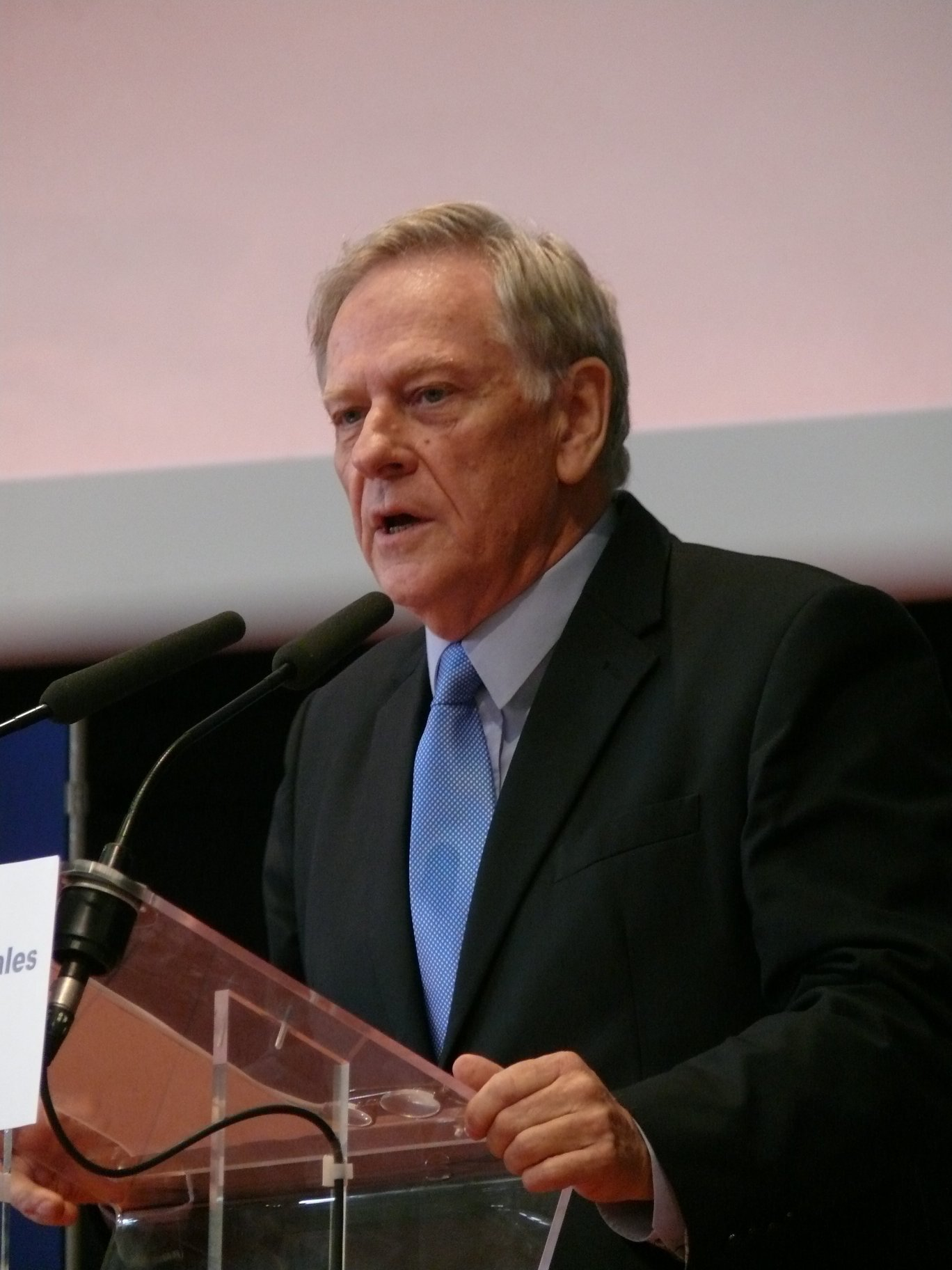 Pierre de Saintignon at the Semaines Sociales de France 2014 at Université Catholique de Lille (Nord, France).